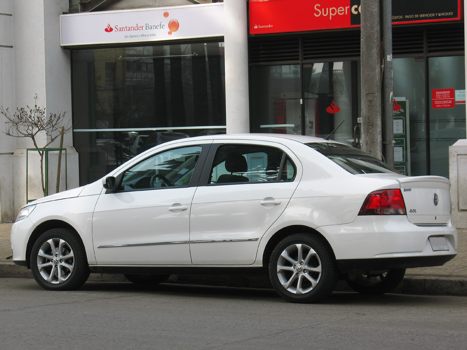 Volkswagen Gol Mk5 1.6 sedan, 2011.